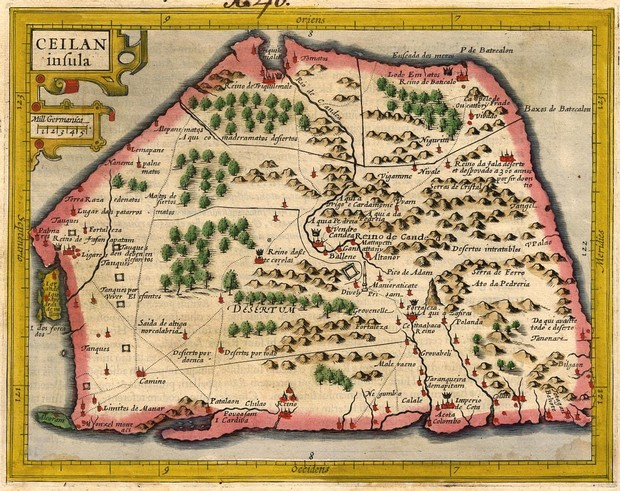 Map older than 200 years old of Tamil country Vanni Copyright expired Map of Tamil country by Gerardus Mercator, 1500s, reproduced by Jodocus Hondius, 1607